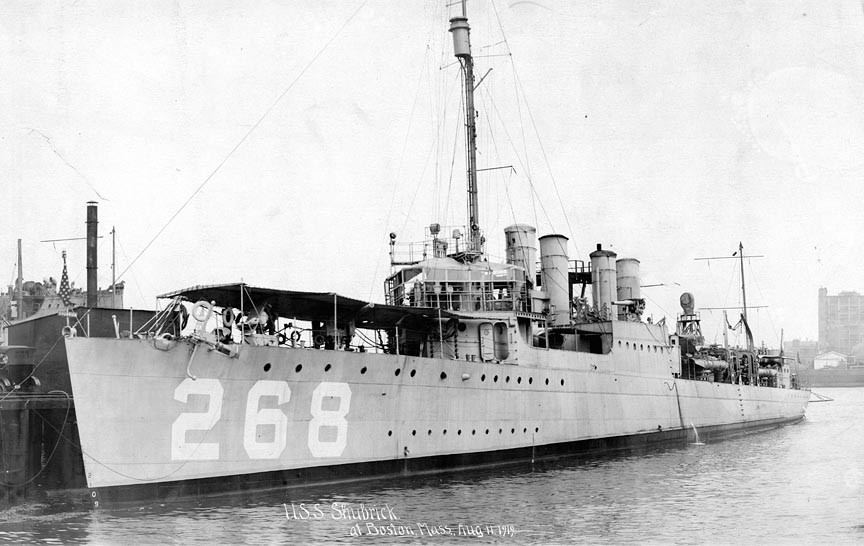 USS Shubrick (DD-268) at Boston, Massachusetts, 11 August 1919.